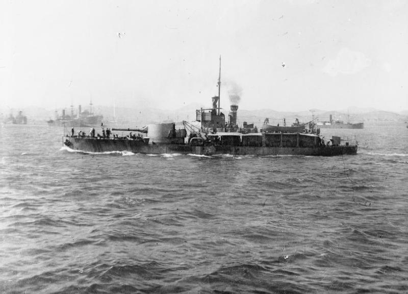 Photograph of British monitor HMS M15 at Mudros.